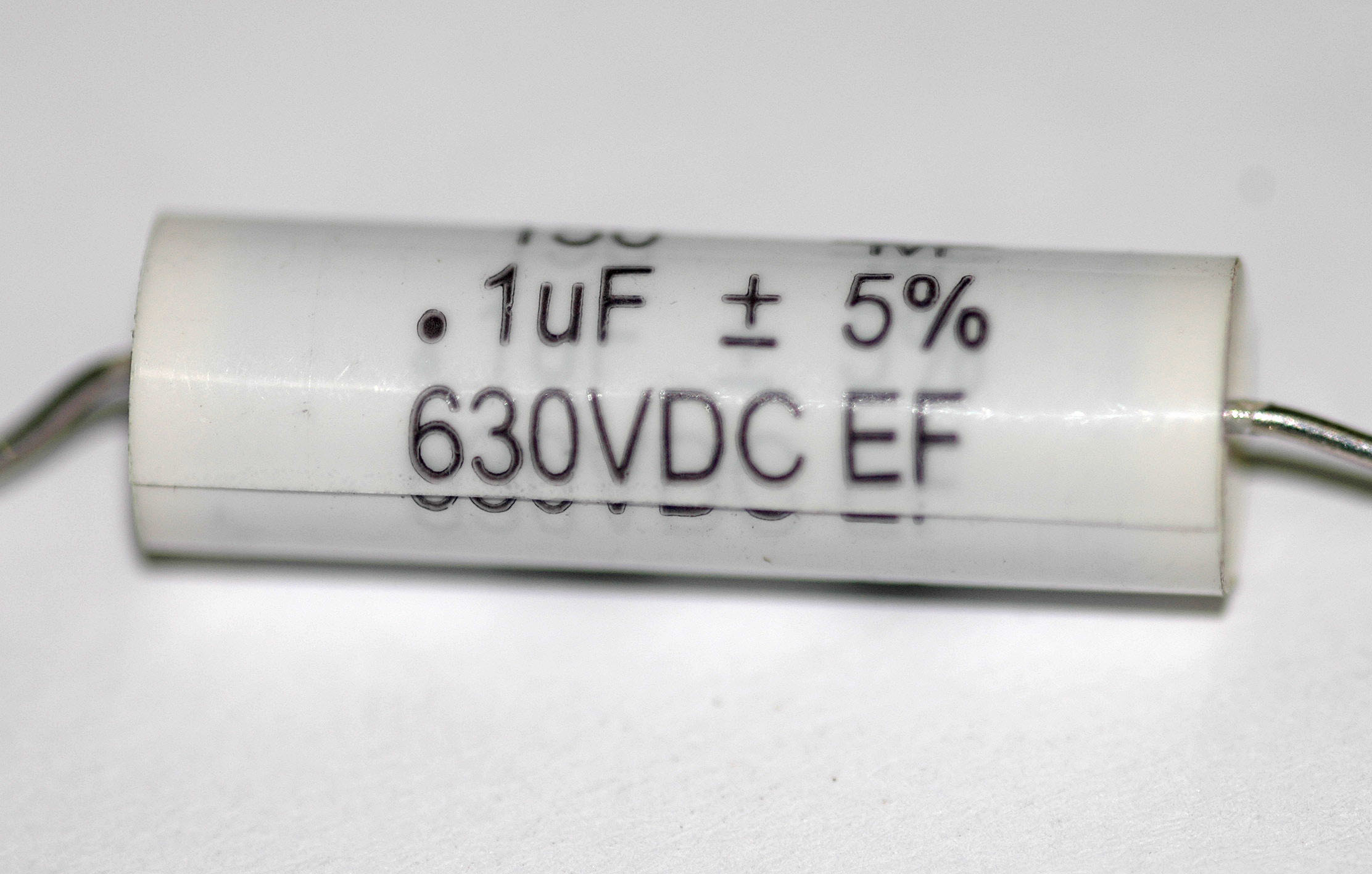 A Mallory 150 100nF 630 VDC polyester film capacitor.